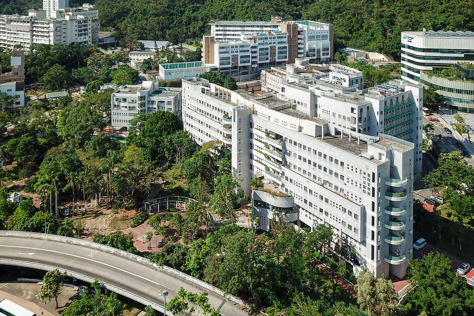 Tung Hua Group Of Hospital Wong Chuk Hang Comprehensive Services For The Elderly Building